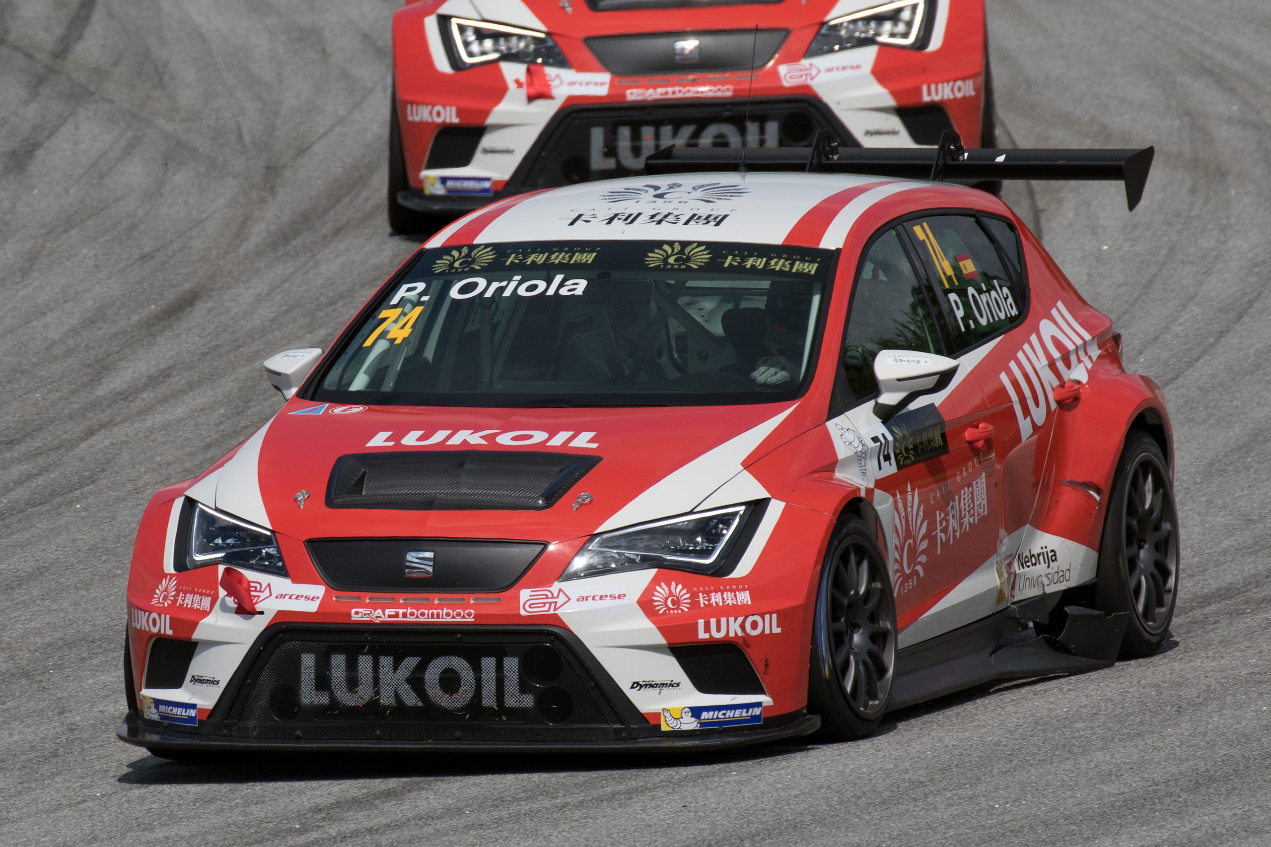 TCR International Series 2015 Rd.1 Malaysia: Pepe Oriola (Bamboo)